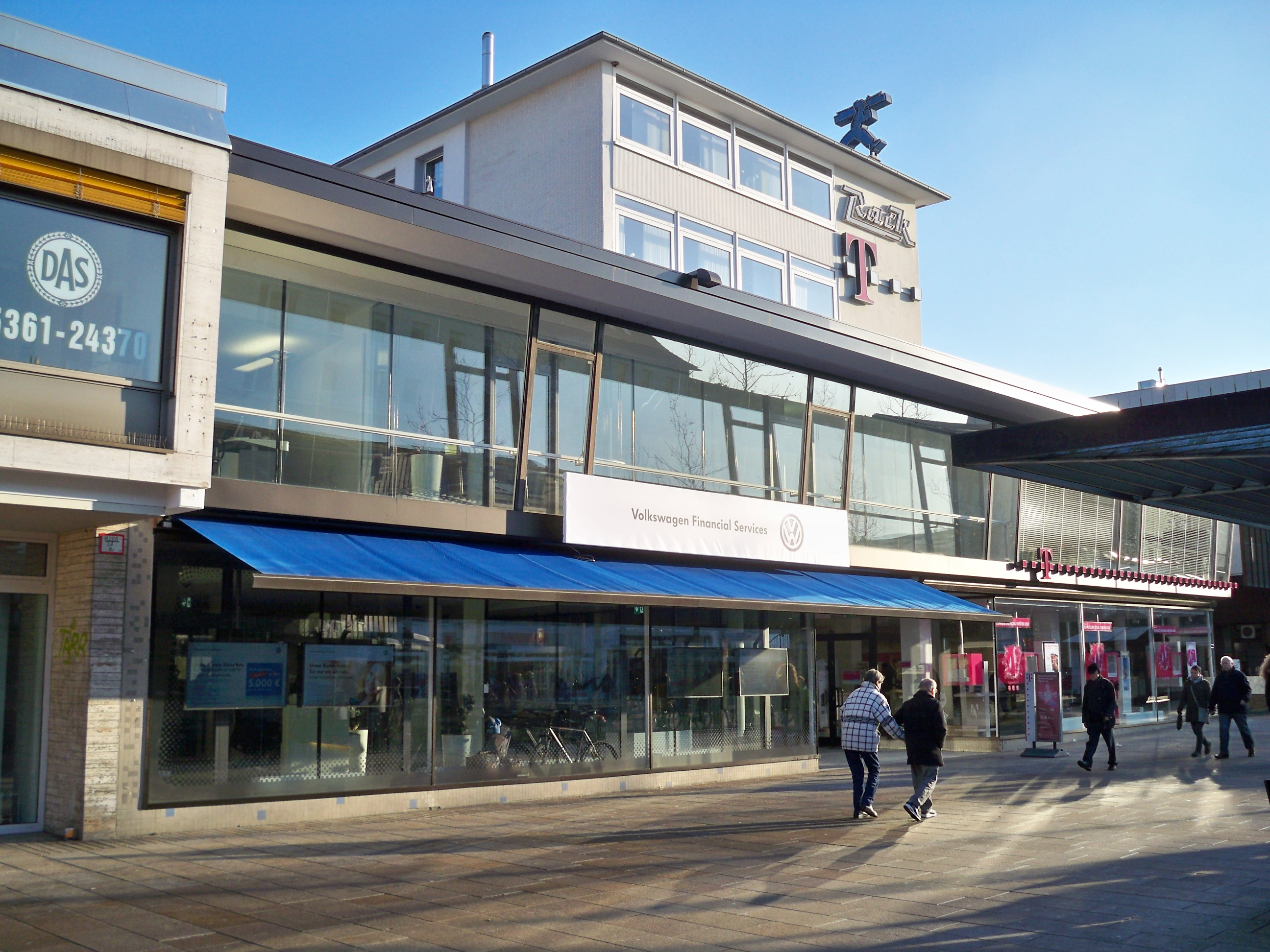 Wolfsburg, Lower Saxony, Rack Building in Porschestraße, constructed in 1959